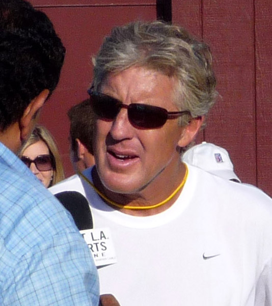 Head Coach Pete Carroll talks to the press after a fall practice preceding the 2008 USC Trojans football season.